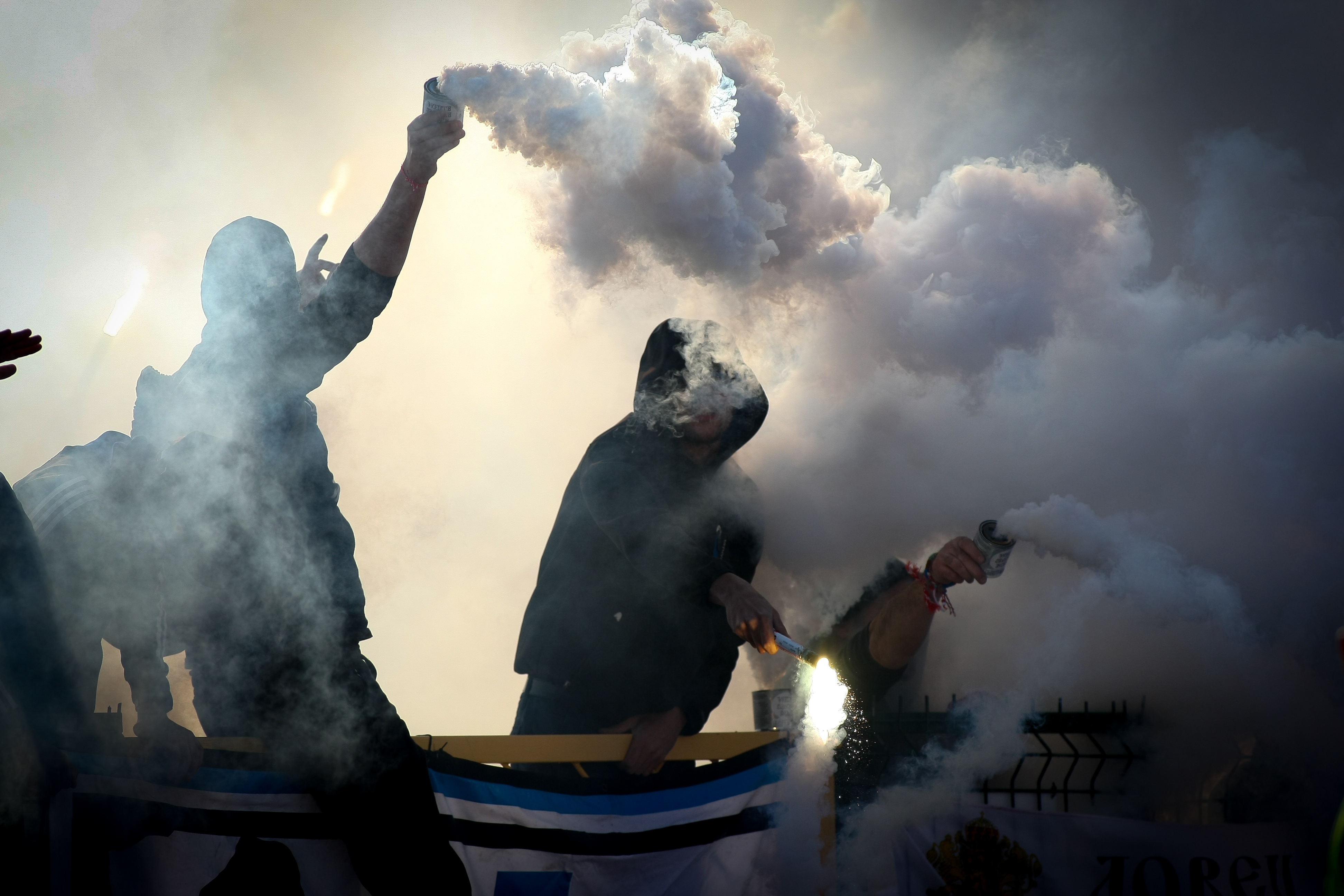 Football ultras fans during the match Levski - CSKA Sofia v. "Vasil Levski", March 4, 2017